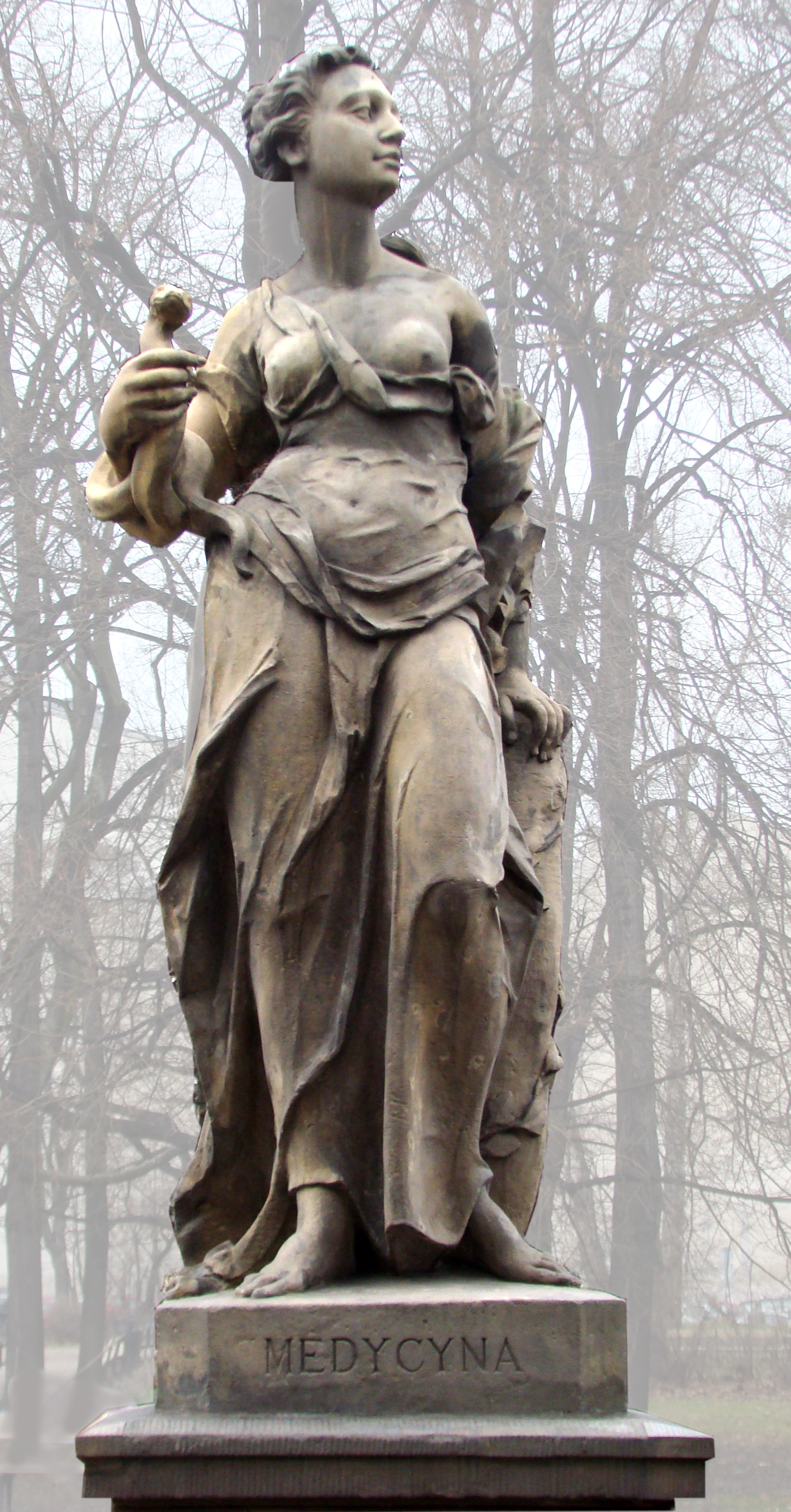 Saxon Garden - Medicine